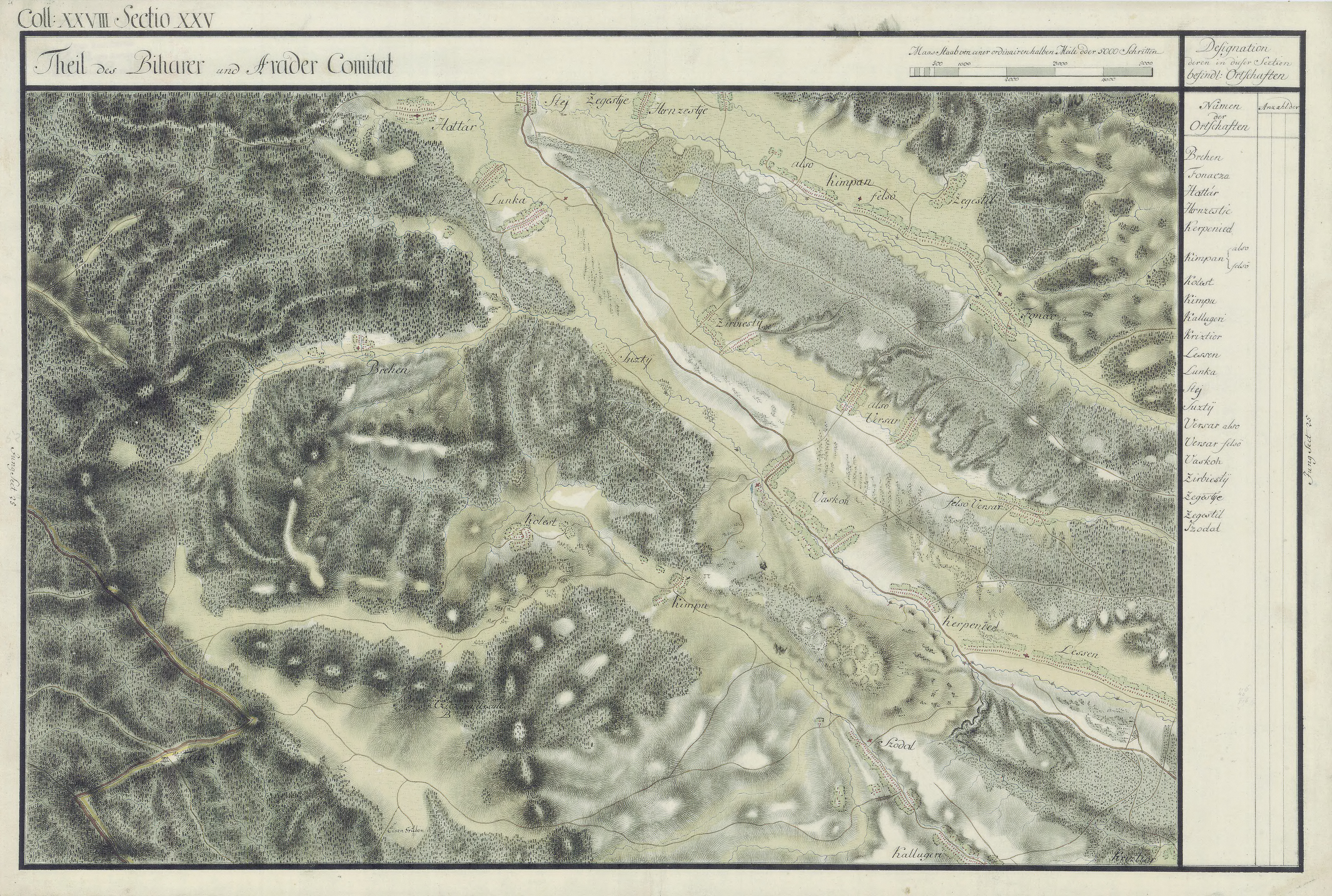 Arad County, 1782-85. Josephinische Landesaufnahme pg.28-25